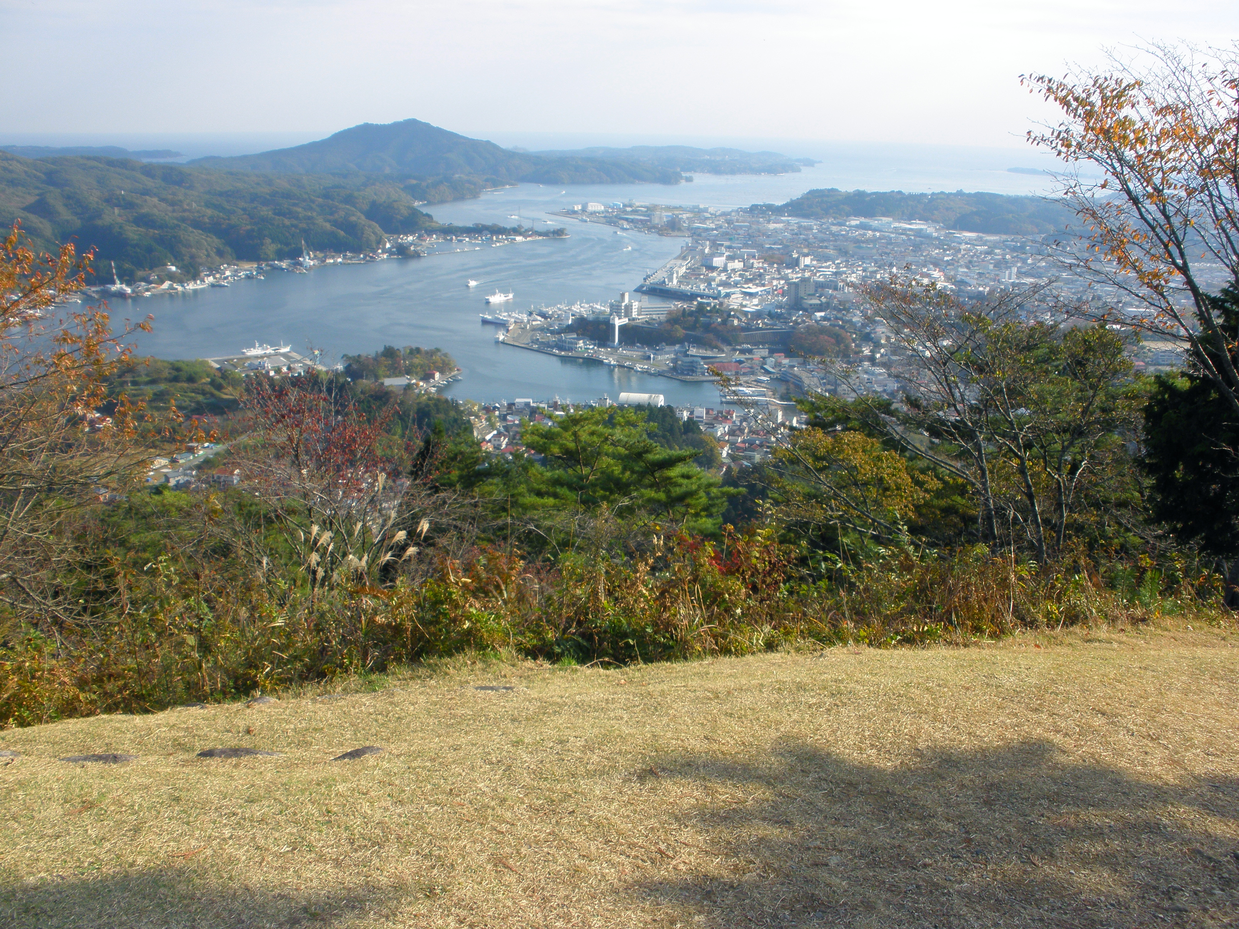 Kesennuma Bay and busy area of Kesennuma seen from Mount Anba.